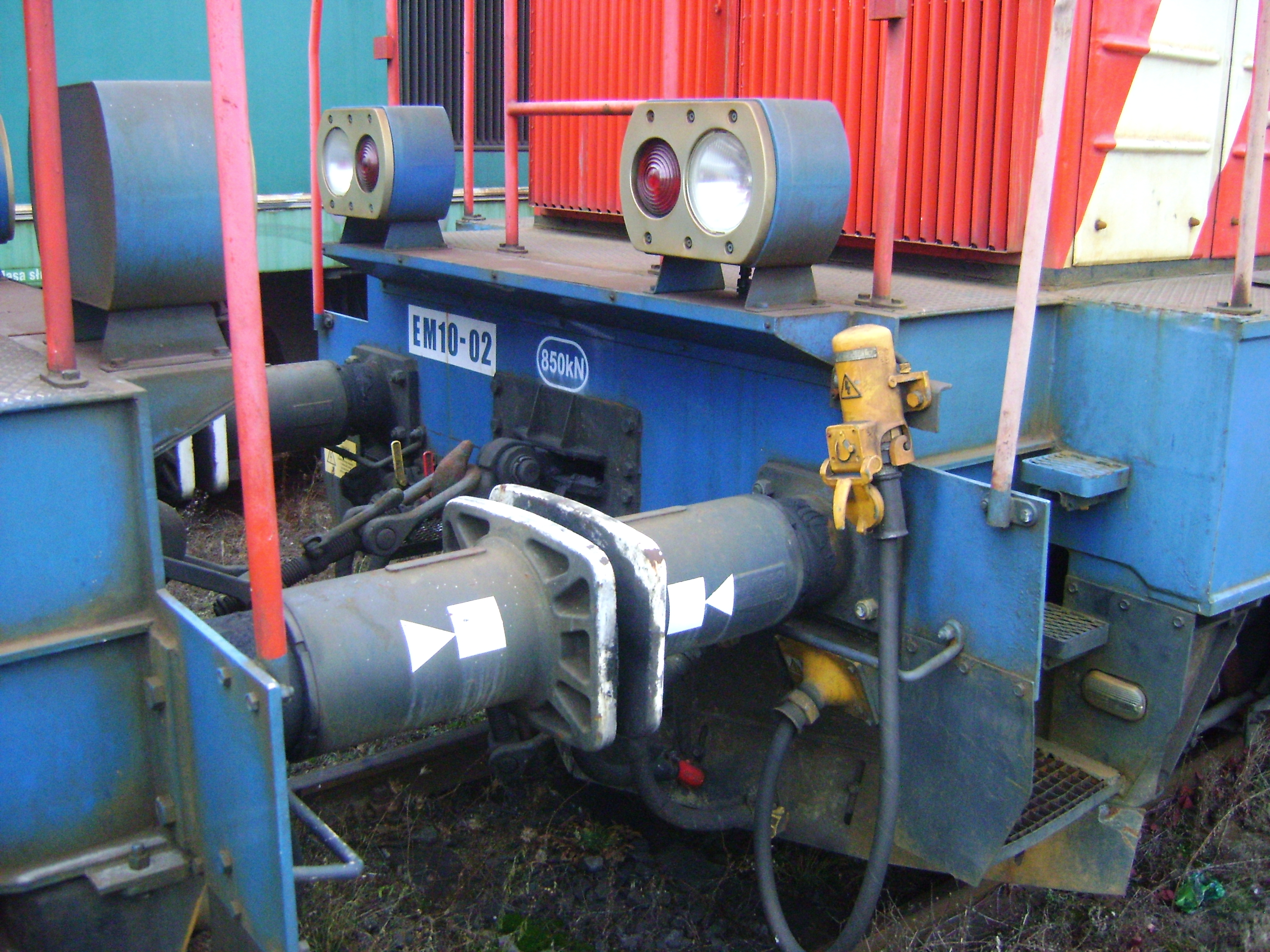 Screw coupling and buffers of PKP Class EM10 electric shunting locomotive.